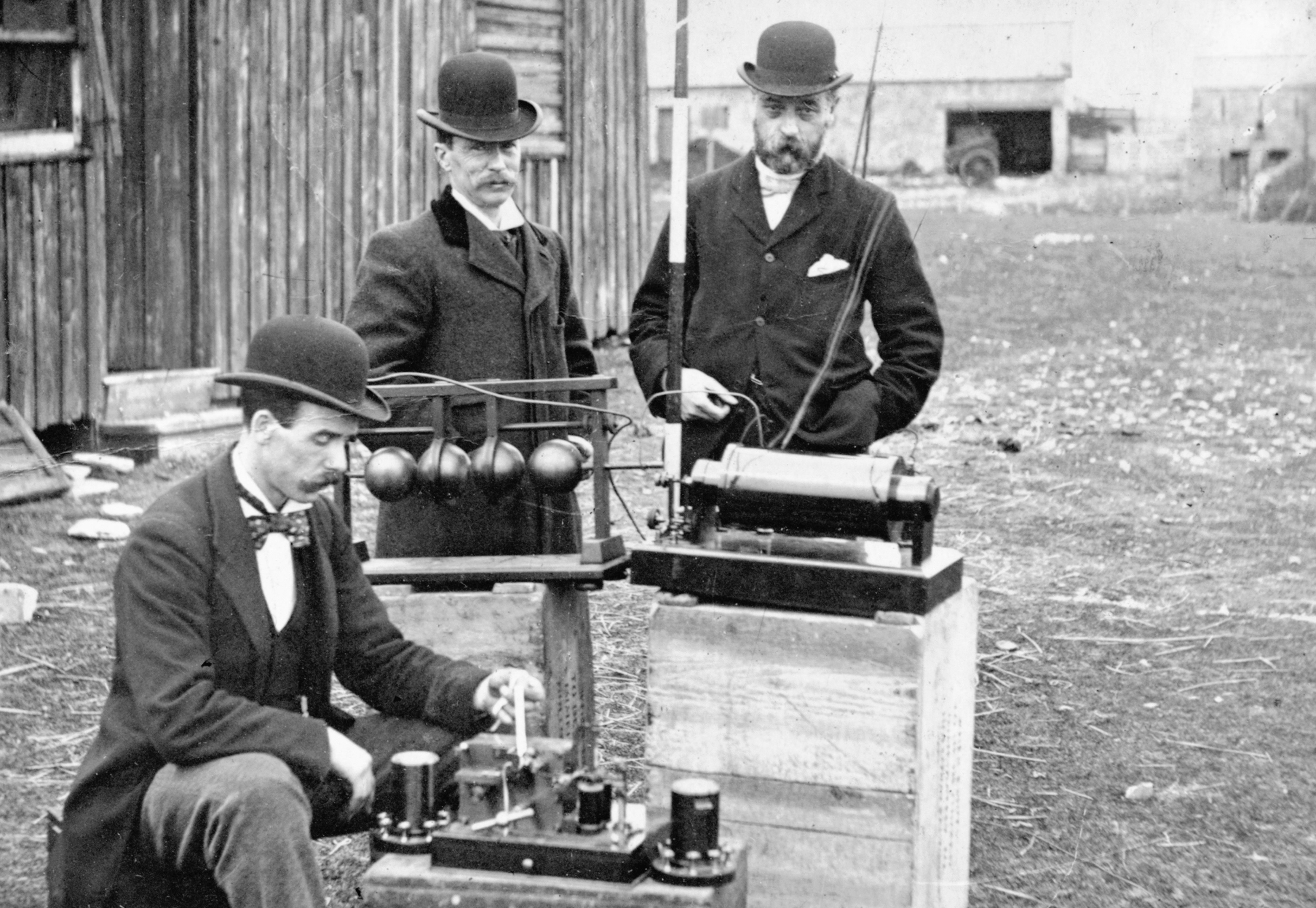 British Post Office engineers inspect Guglielmo Marconi's wireless telegraphy (radio) equipment, during a demonstration on Flat Holm island, 13 May 1897. This was the world's first demonstration of the transmission of radio signals over open sea, between Lavernock Point and Flat Holm Island, a distance of 3 miles. In the background is the spark-gap transmitter, an induction coil (right) that generates high voltage pulses that create sparks between the balls of the Righi spark gap (left), which excites oscillating currents in a wire antenna suspended aloft by the pole seen in the center, ratiating radio waves. Information is transmitted by switching the transmitter on and off rapidly using a switch called a telegraph key (not visible), spelling out text messages in Morse code. In the foreground is the receiver. When receiving from the Lavernock station, the oscillating voltage from the antenna is applied to a coherer; a primitive radio wave detector consisting of a small tube containing two electrodes with metal filings between them. When a radio wave from a distant transmitter strikes the antenna and is applied to the coherer, the filings clump together and conduct electricity. A second circuit is attached to the coherer consisting of a battery which operates a relay (cylindrical objects at sides), which in turn sends a pulse of current to a Morse paper tape recorder (center). When a radio wave turns on the coherer, it sends a pulse to the recorder, which makes a mark on a paper tape. The Morse code message from the remote transmitter can be read from the tape, as the seated man is doing. The relays are contained within cylindrical metal shields to prevent their sparks from interfering with the sensitive coherer. Information from Retrospective:Radio waves across the water, ]